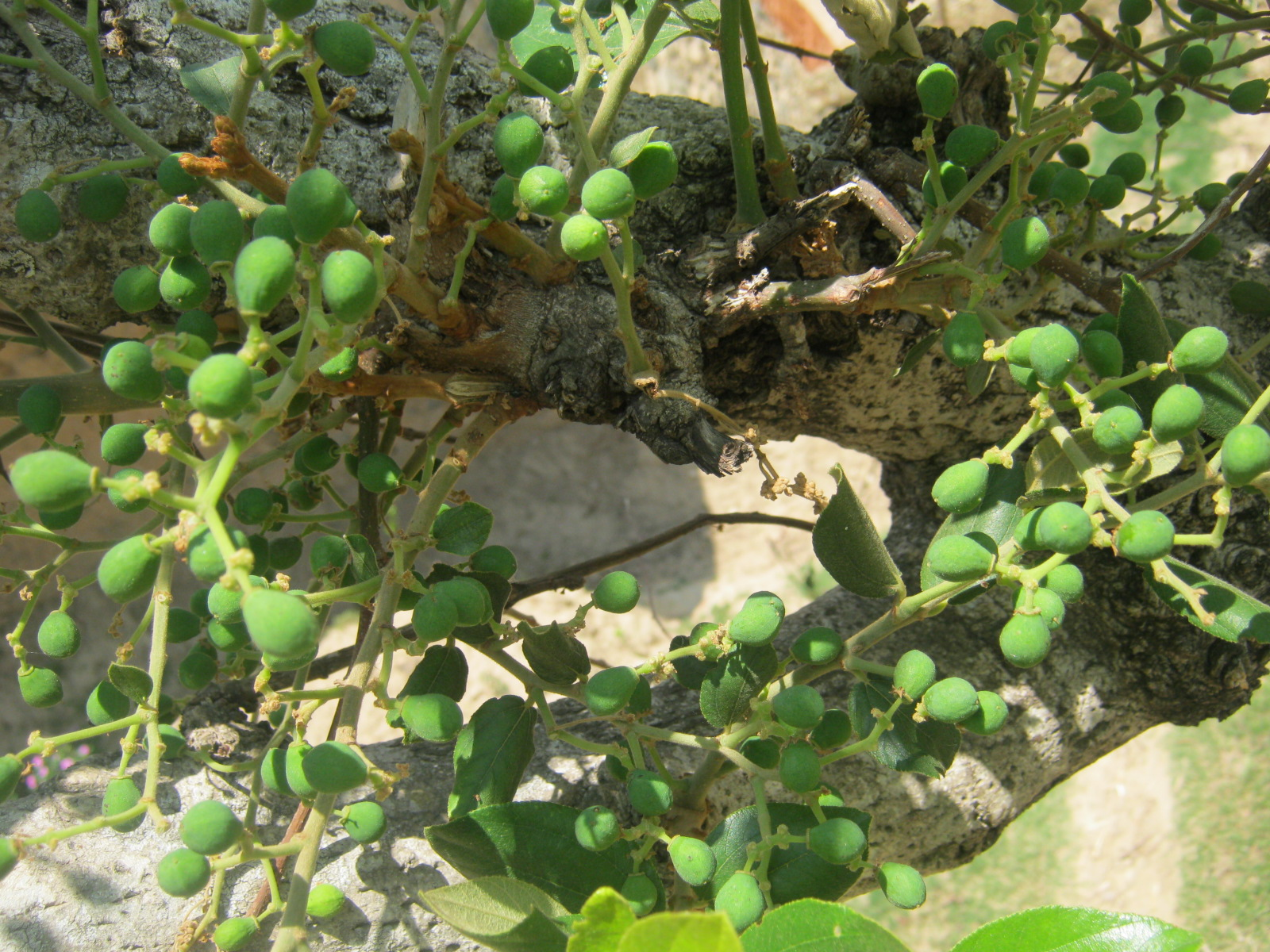 A plant with edible fruit. Fruit turns yellow after it ripens.